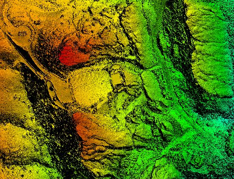 A digital elevation model (DEM) produced with DroneMapper photogrammetry software and Falcon UAV.